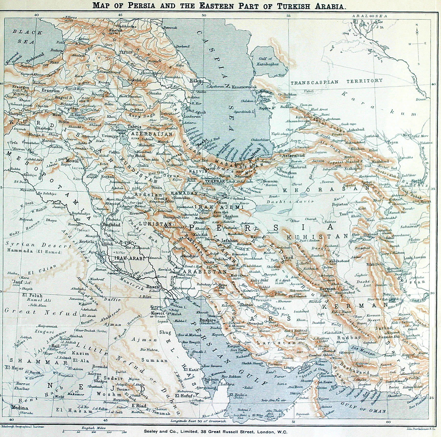 Map of Persia 1909